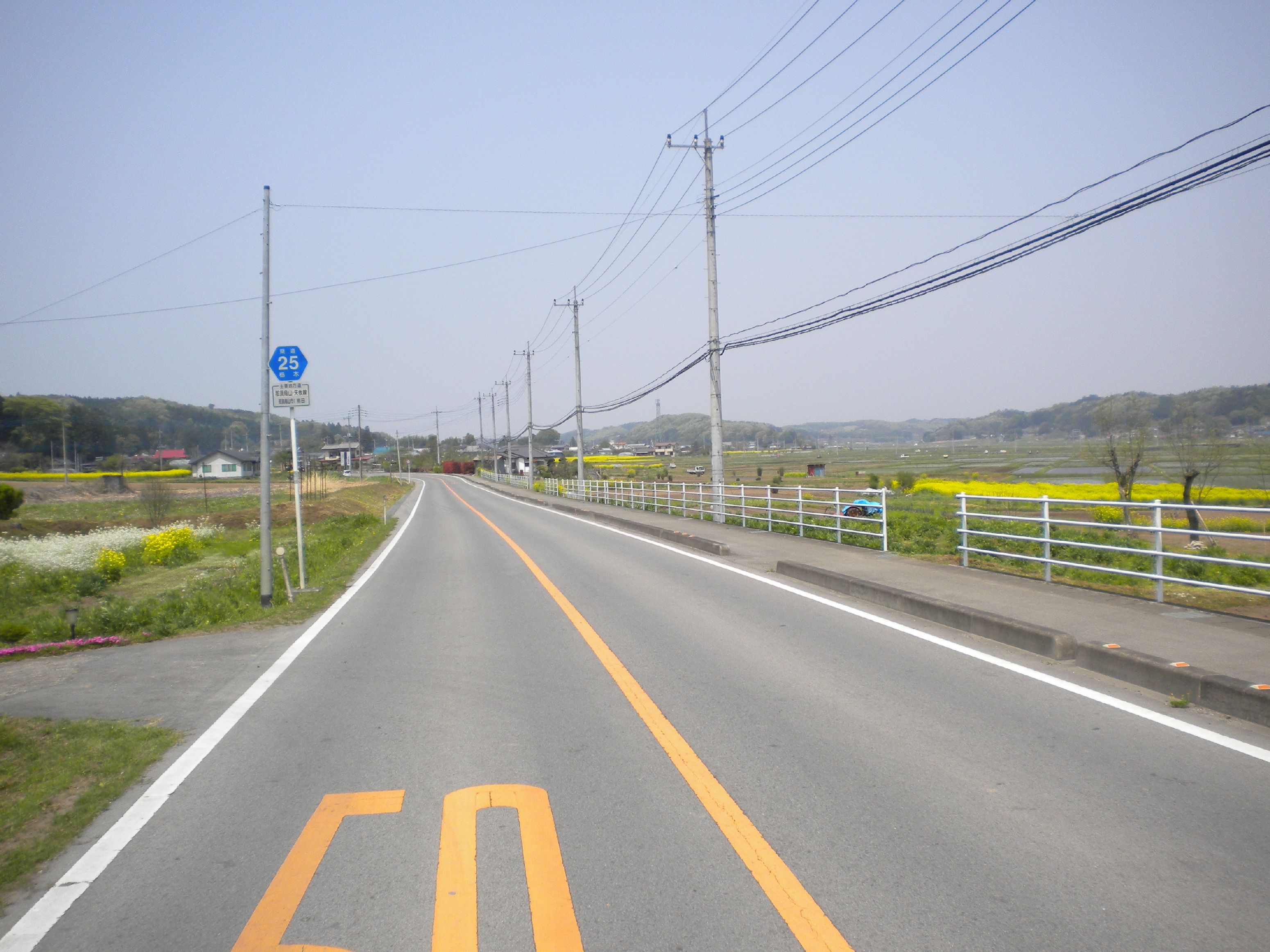 The Tochigi Prefectural Road Route 25 in Kumada, Nasukarasuyama City